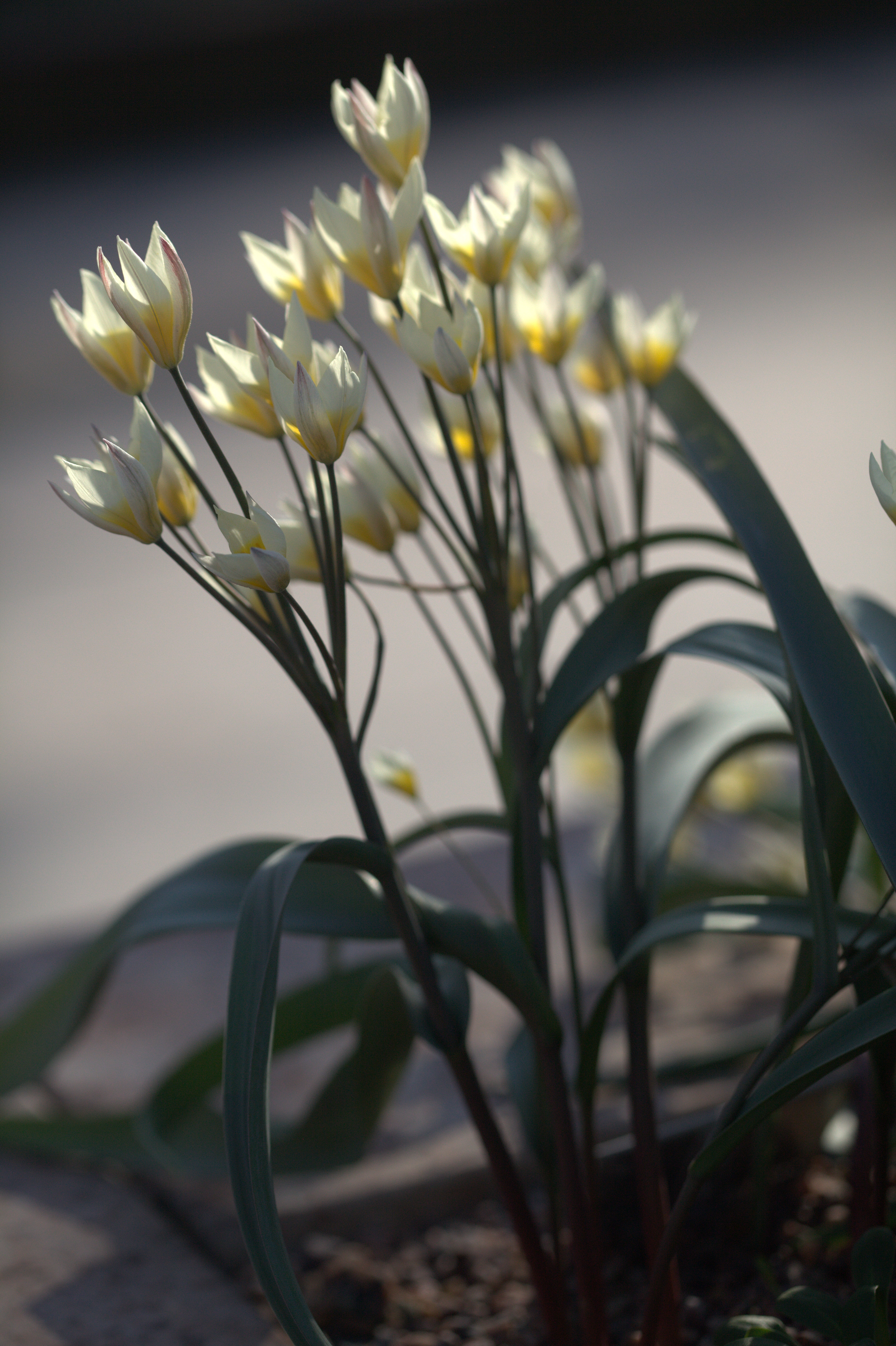 Photo taken at Gothenburg botanical garden. Specimen id: 2001-1300 p G Plant collected in 2001 from the wild.